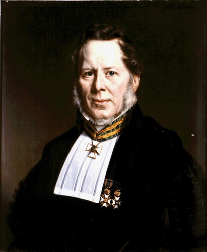 Jacobus Ludovicus Conradus Schroeder van der Kolk (1797-1862) Dutch physicians